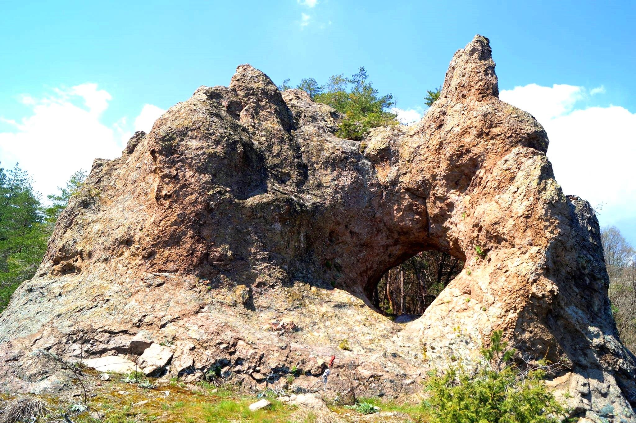 Il kaya DZB